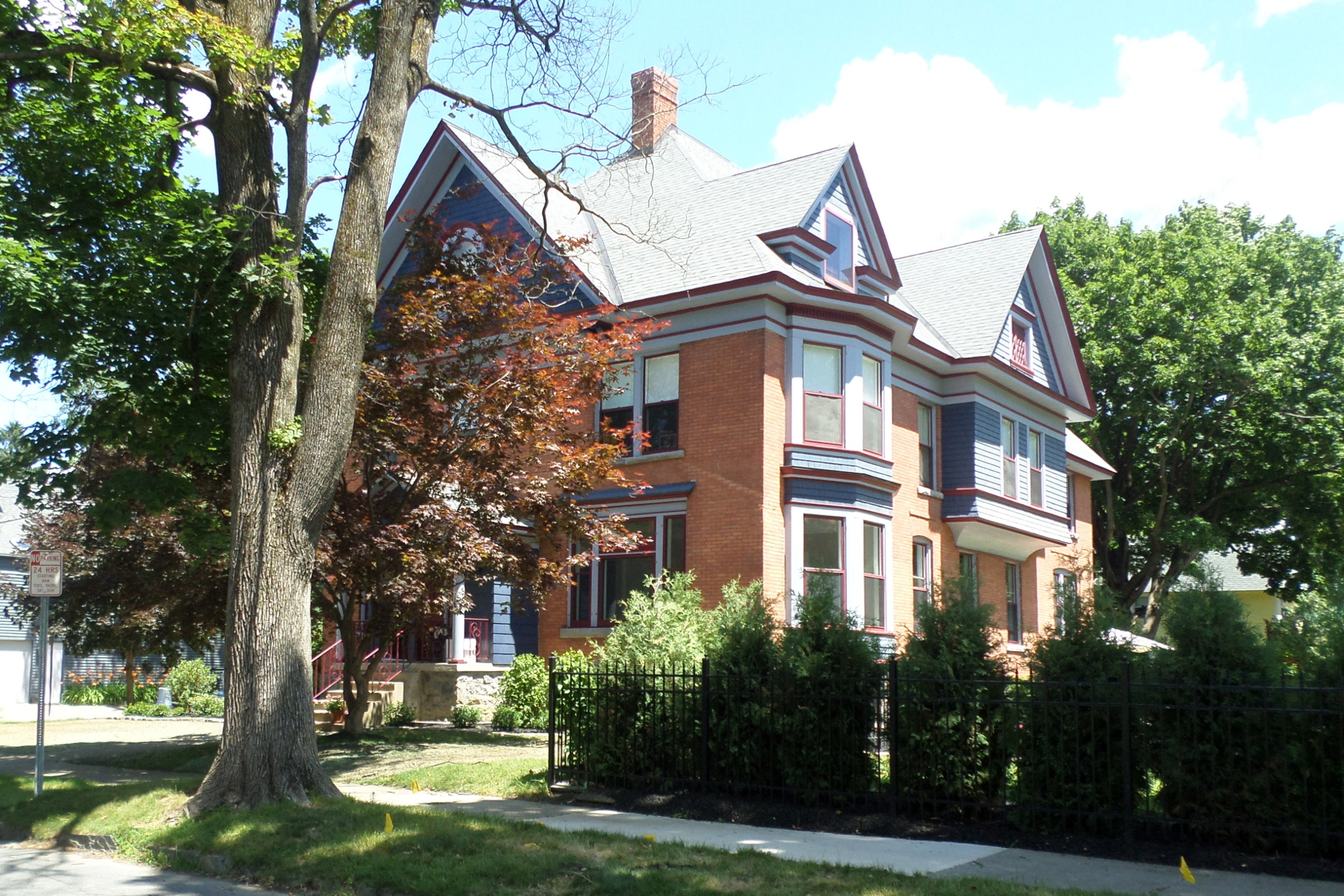 Home designed by Robert Newton Brezee (1896)